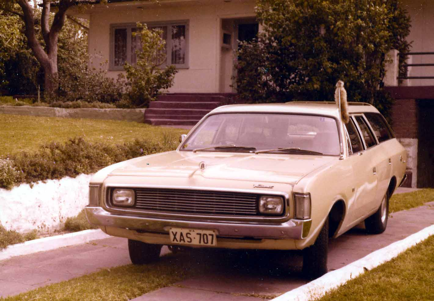 Valiant VH station wagon 1972. Perth, Western Australia